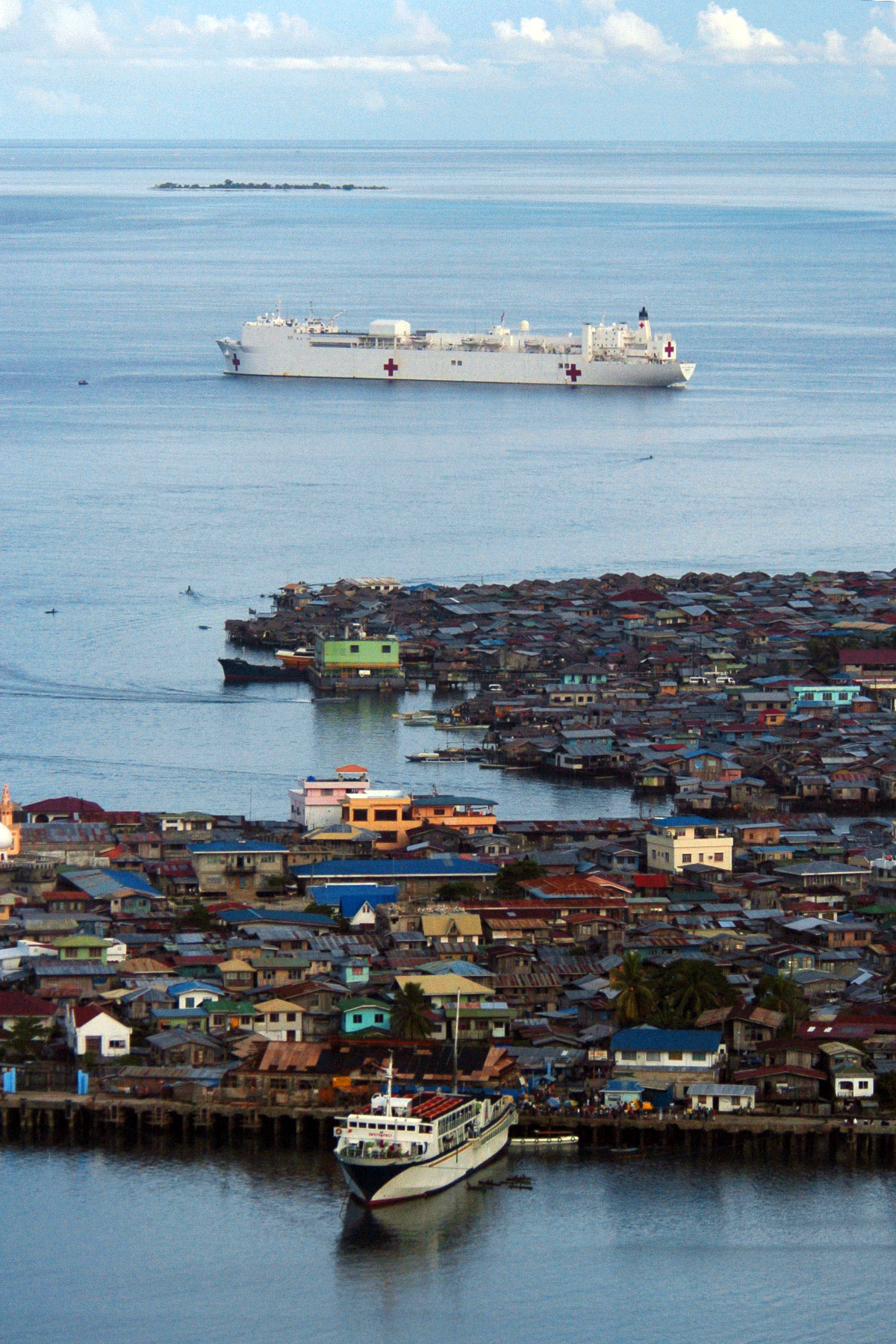 Tawi Tawi, Philippines (June 14, 2006) - The U.S. Military Sealift Command (MSC) Hospital Ship USNS Mercy (T-AH 19) is anchored off of the coast of Tawi Tawi, while providing a multitude of medical and dental care for the people who live in this region of the South Philippines. Mercy's stop in Tawi Tawi is one of many during its humanitarian deployment to South and Southeast Asia, and the Pacific Islands. U.S. Navy photo by Chief Photographer's Mate Edward G. Martens (RELEASED)